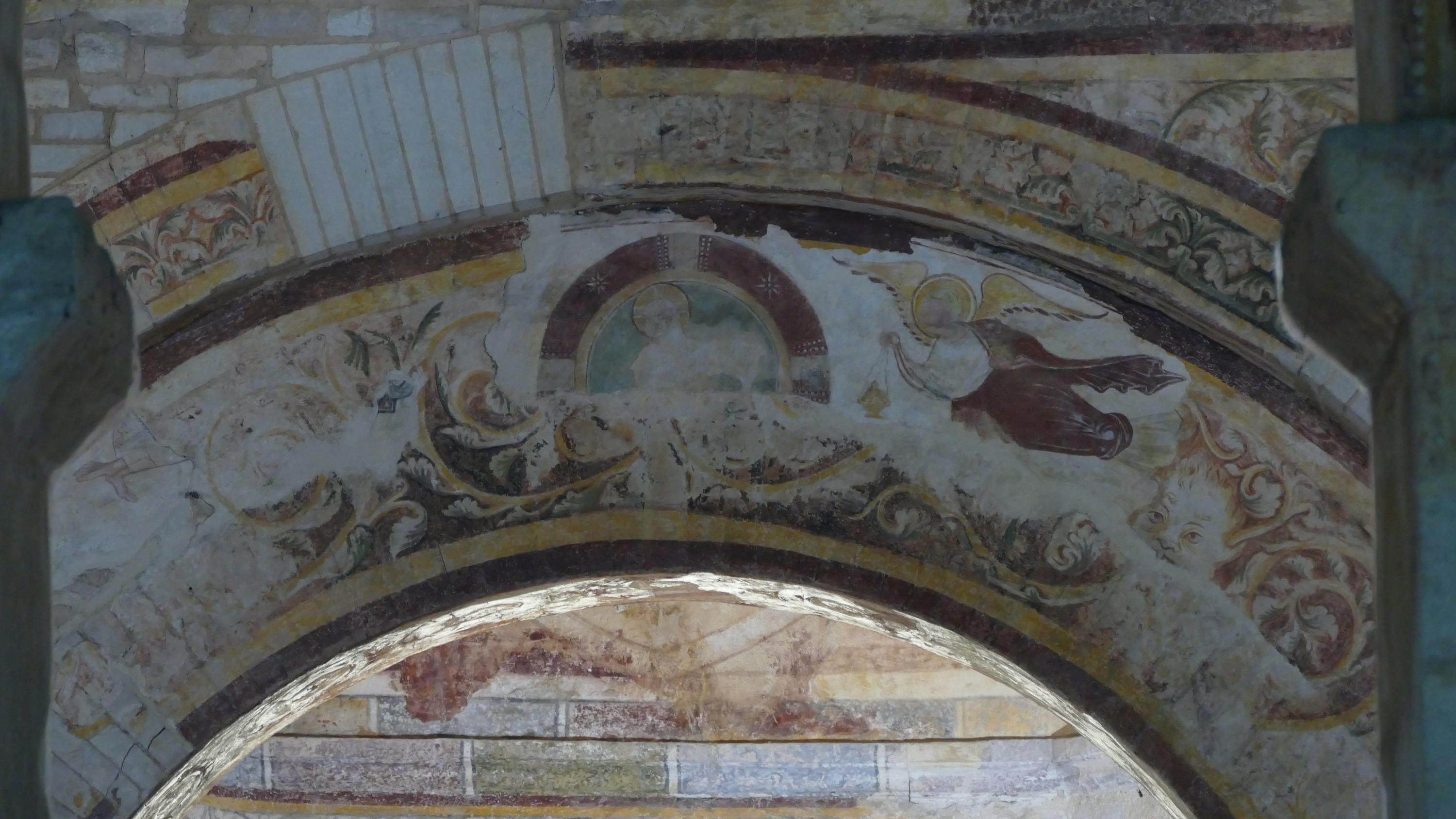 Baptistère Saint-Jean in Poitiers (Vienne, Poitou-Charentes, France).